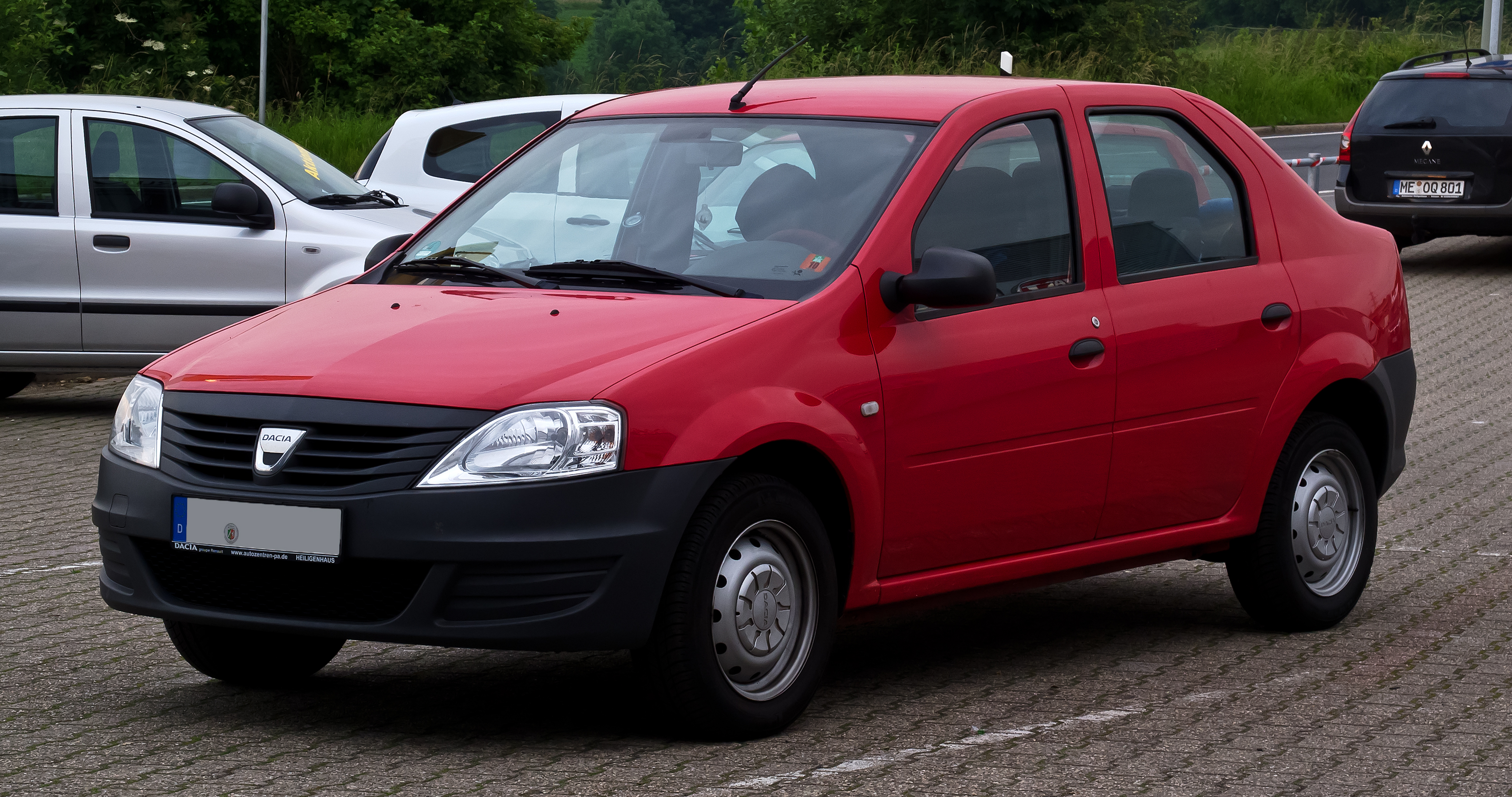 Dacia Logan 1.4 MPI (Facelift)